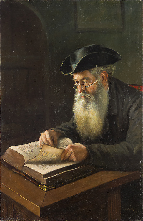 Dutch Rabbi